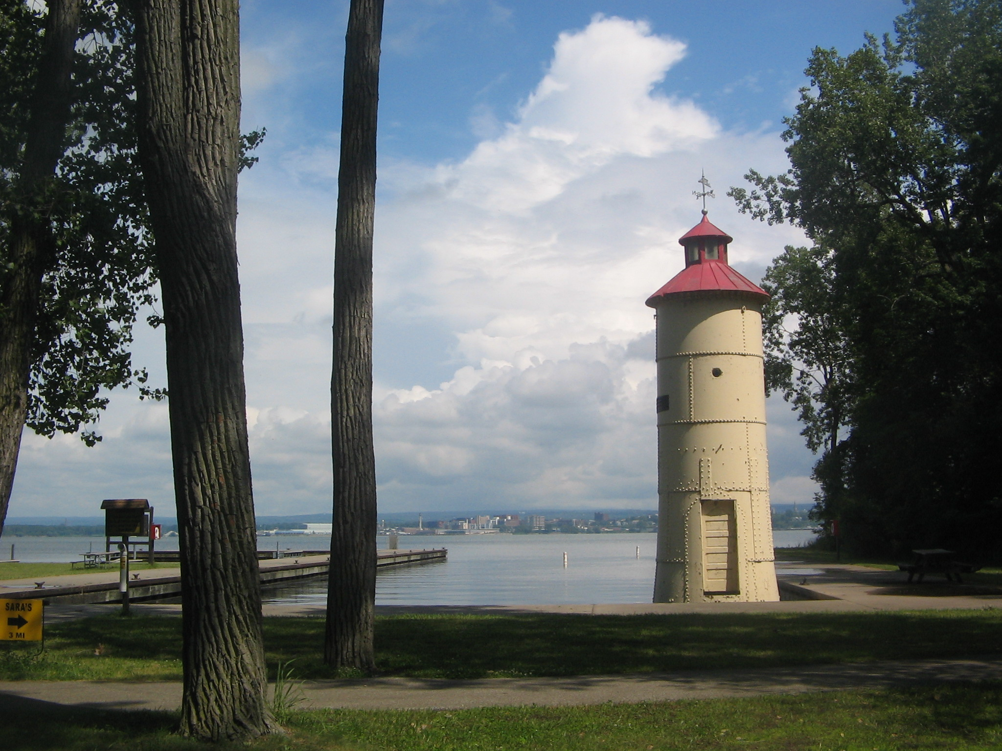 Waterworks Lighthouse and Ferry Dock (with Presque Isle Bay and the city of Erie in the backgorund) at Presque Isle State Park in Erie County, Pennsylvania, United States